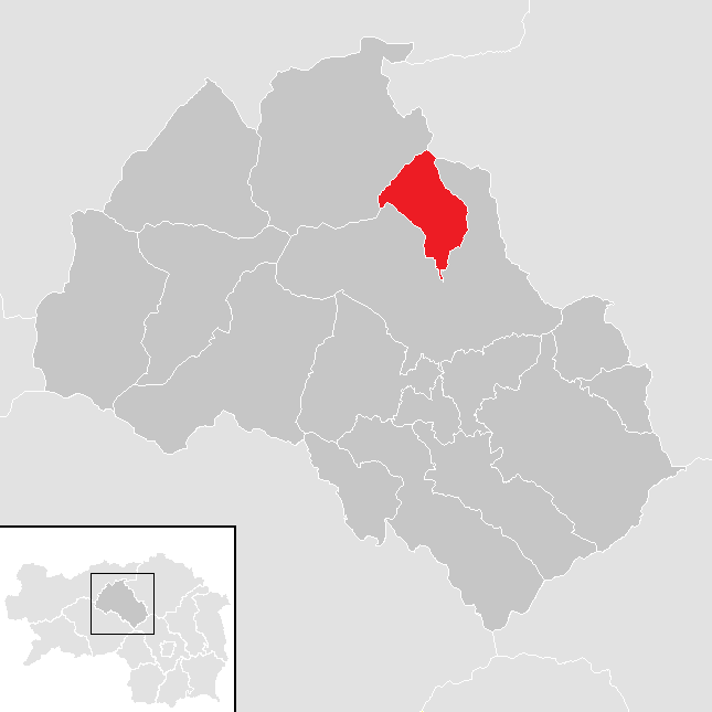 District Leoben